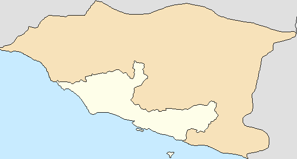 Location map of Malacca City, the capital of the Malaysian state of Malacca.